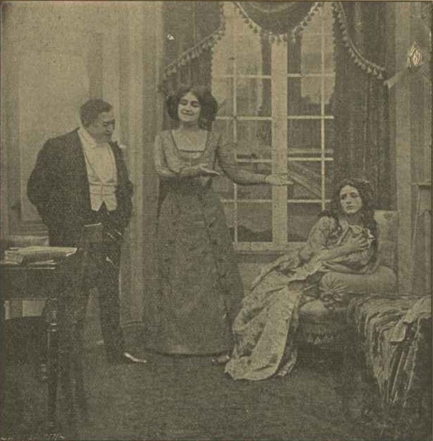 From the program for the silent movie: Den hvide Slavehandel (DK/US: 1910). Marketing pamflet